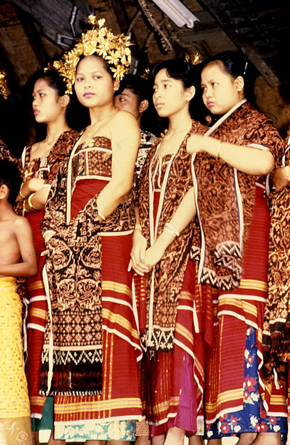 Here the young women gather for the five month ceremony. Photo taken about 1990.